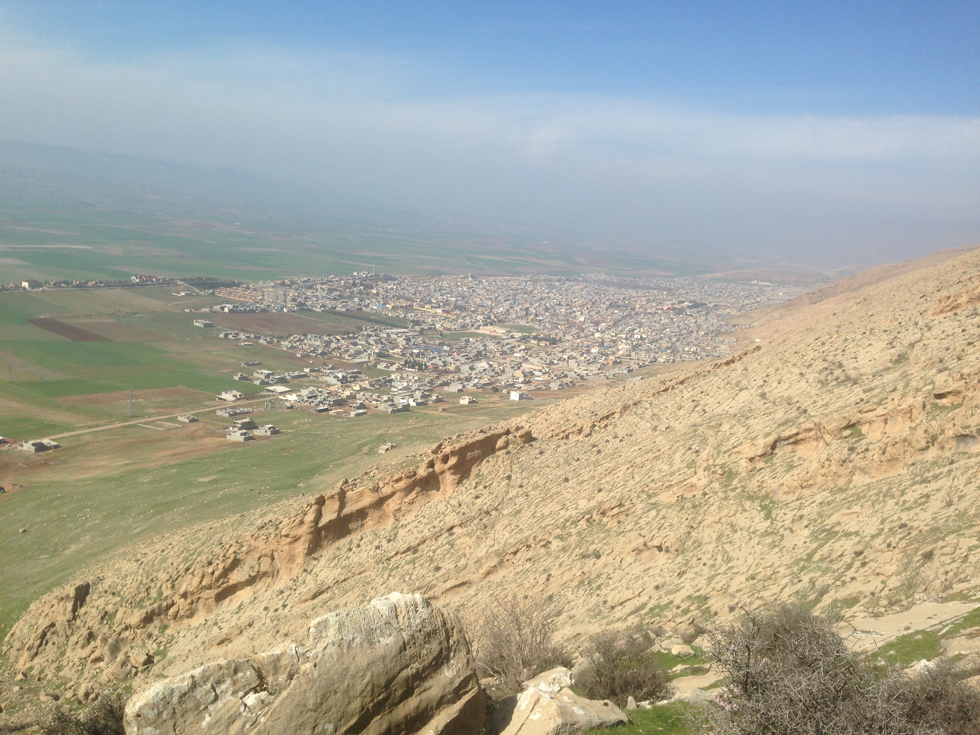 The town of Harir, in the Kurdistan Region of Iraq (2016)